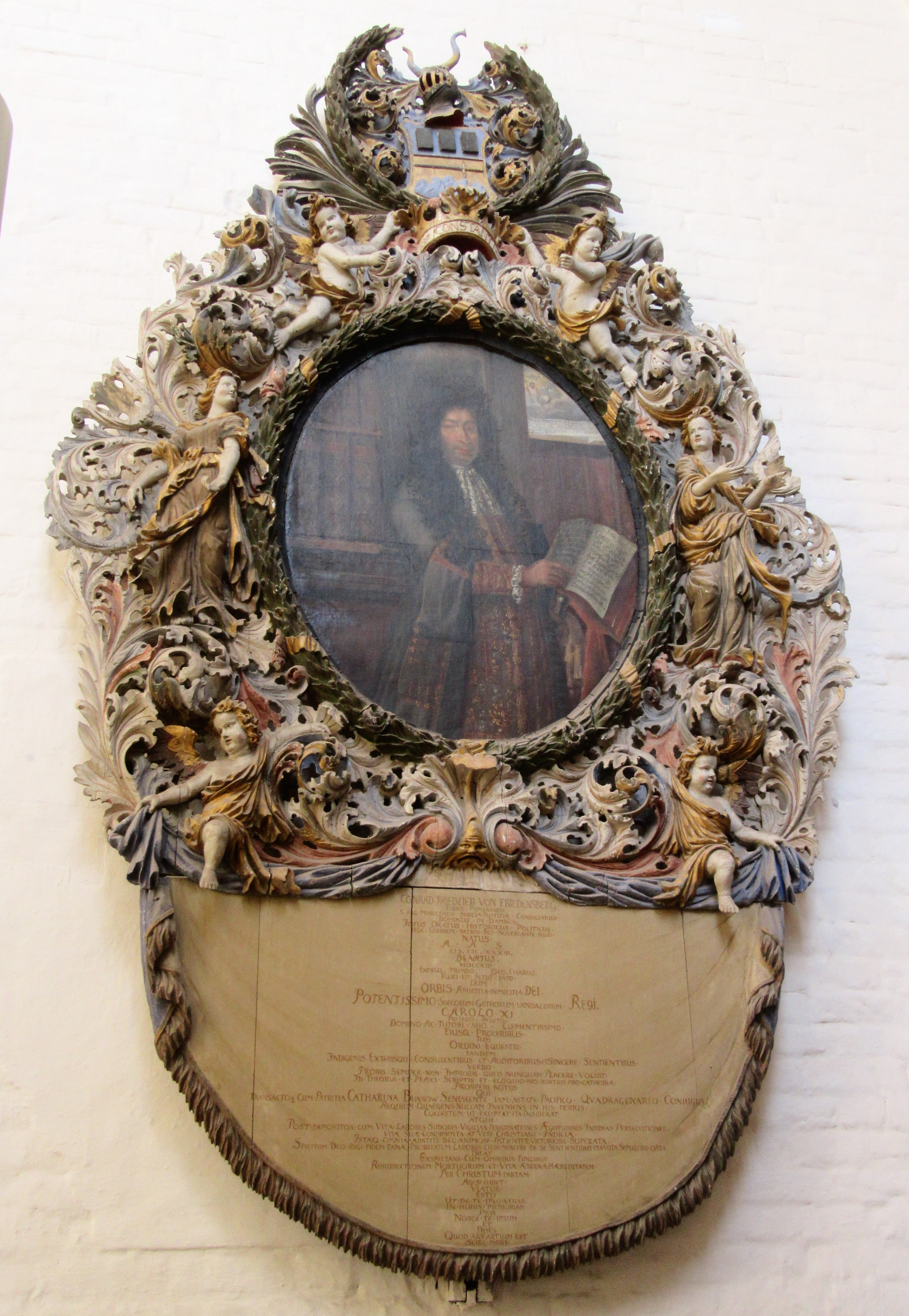 St. Marien, Greifswald